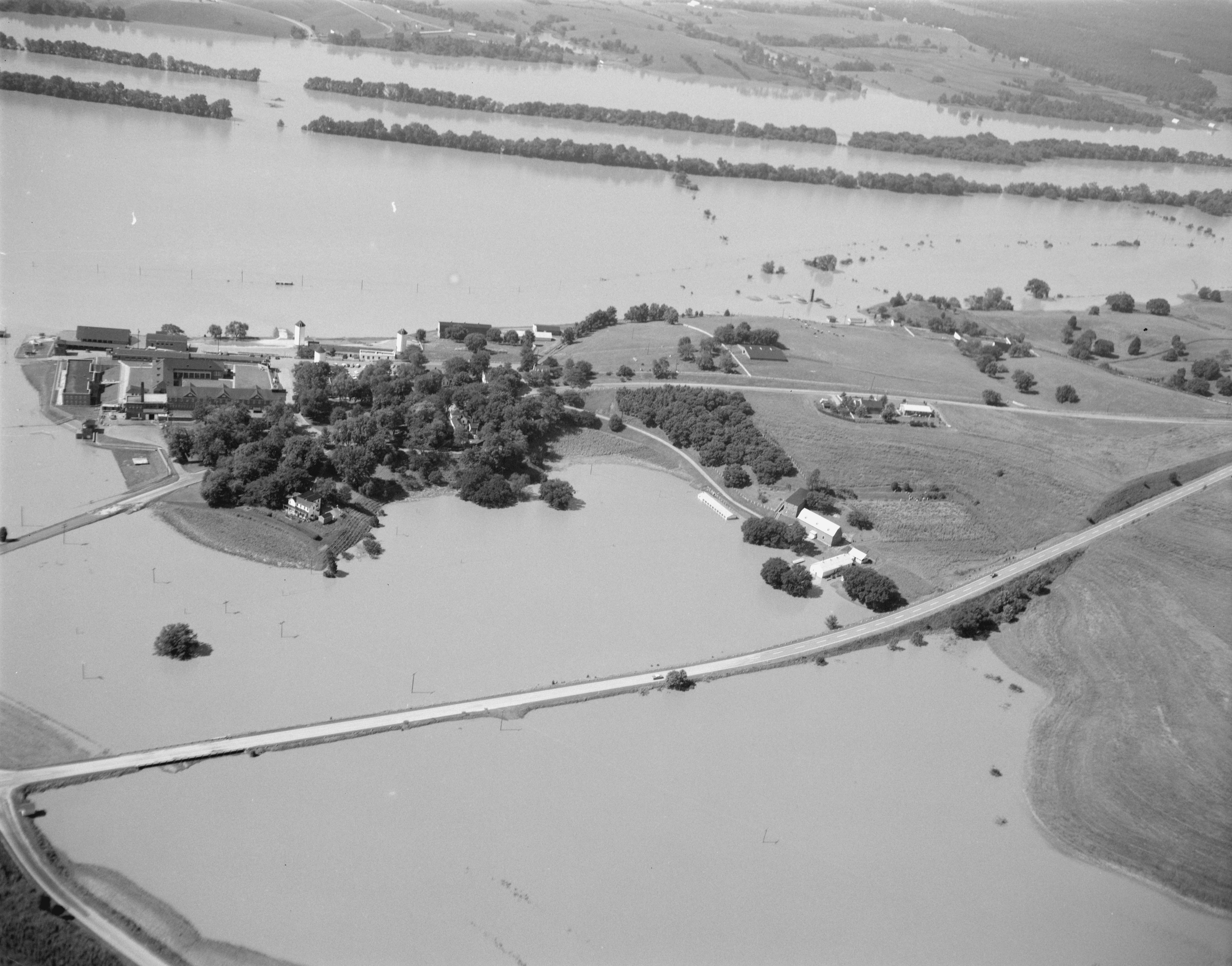 Aerail view of the flooding in the State Farm area on Rt. 603 in Goochland County. No. 69-2152, Virginia Governor's Negative Collection, Library of Virginia.